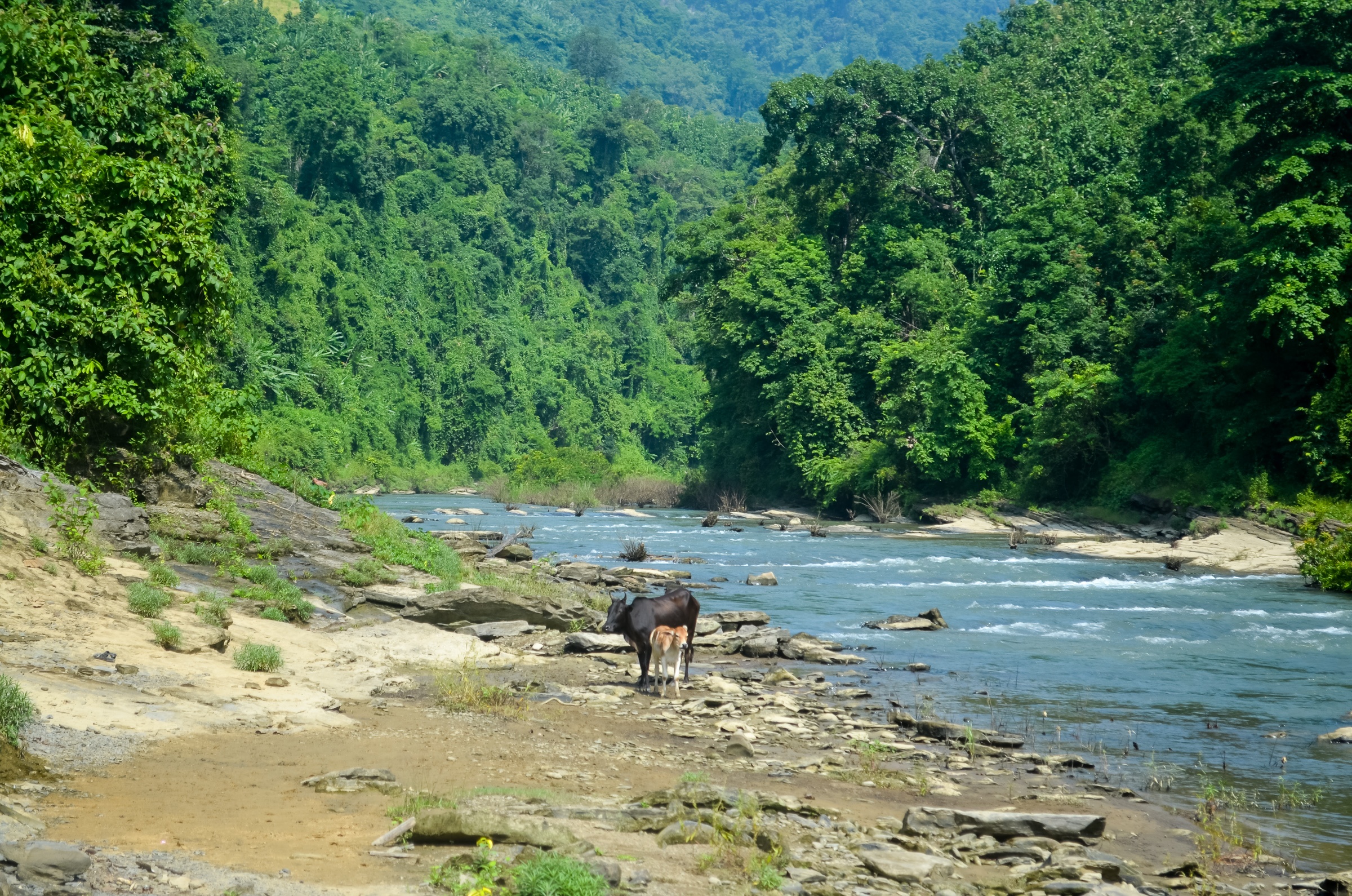 Beautiful Remakri khal.